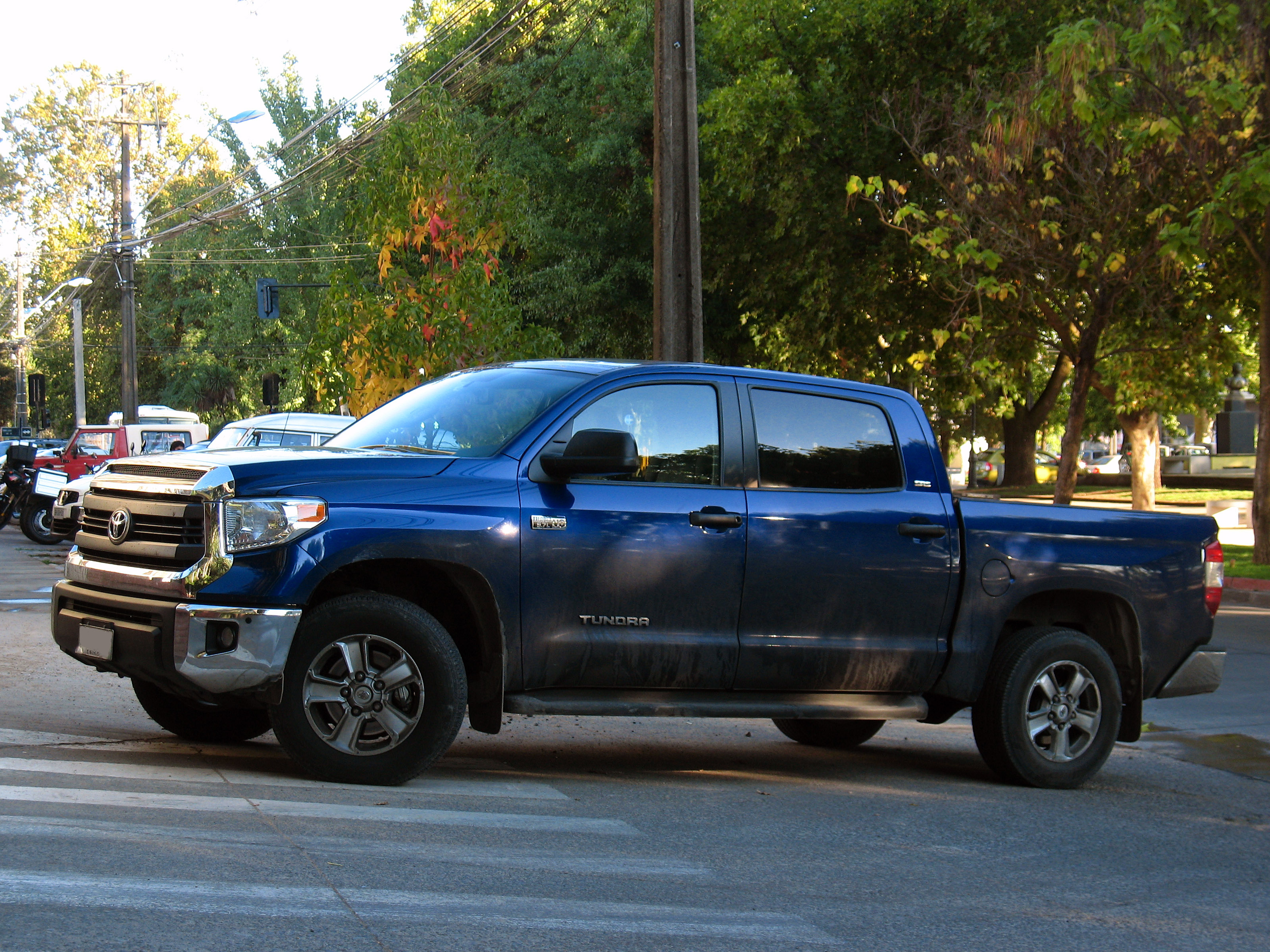 Toyota Tundra 5.7L SR5 Crew Max 2015